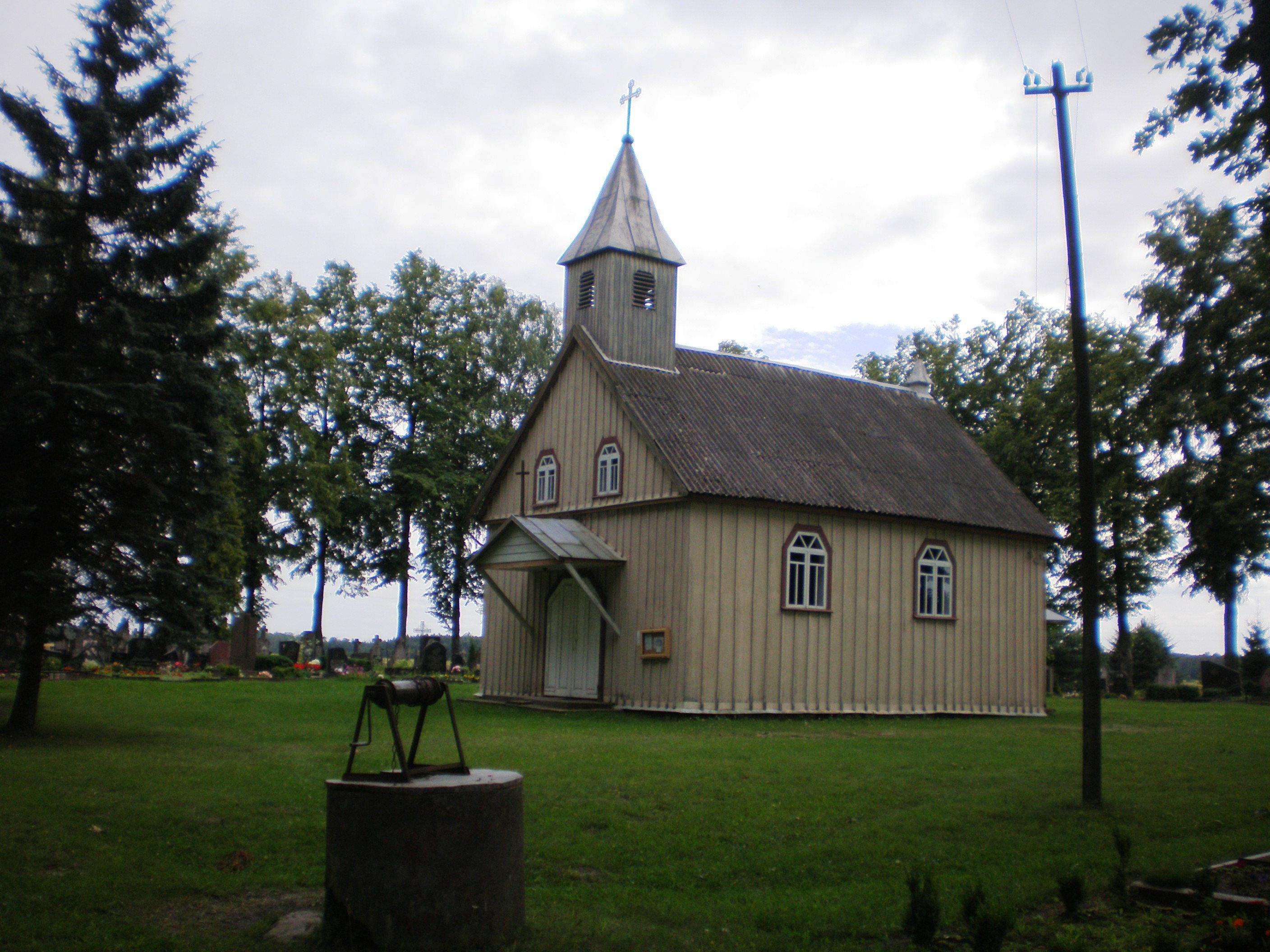 Šaravai Church, Josvainiai eldership, Kėdainiai mun., Kaunas County, Lithuania